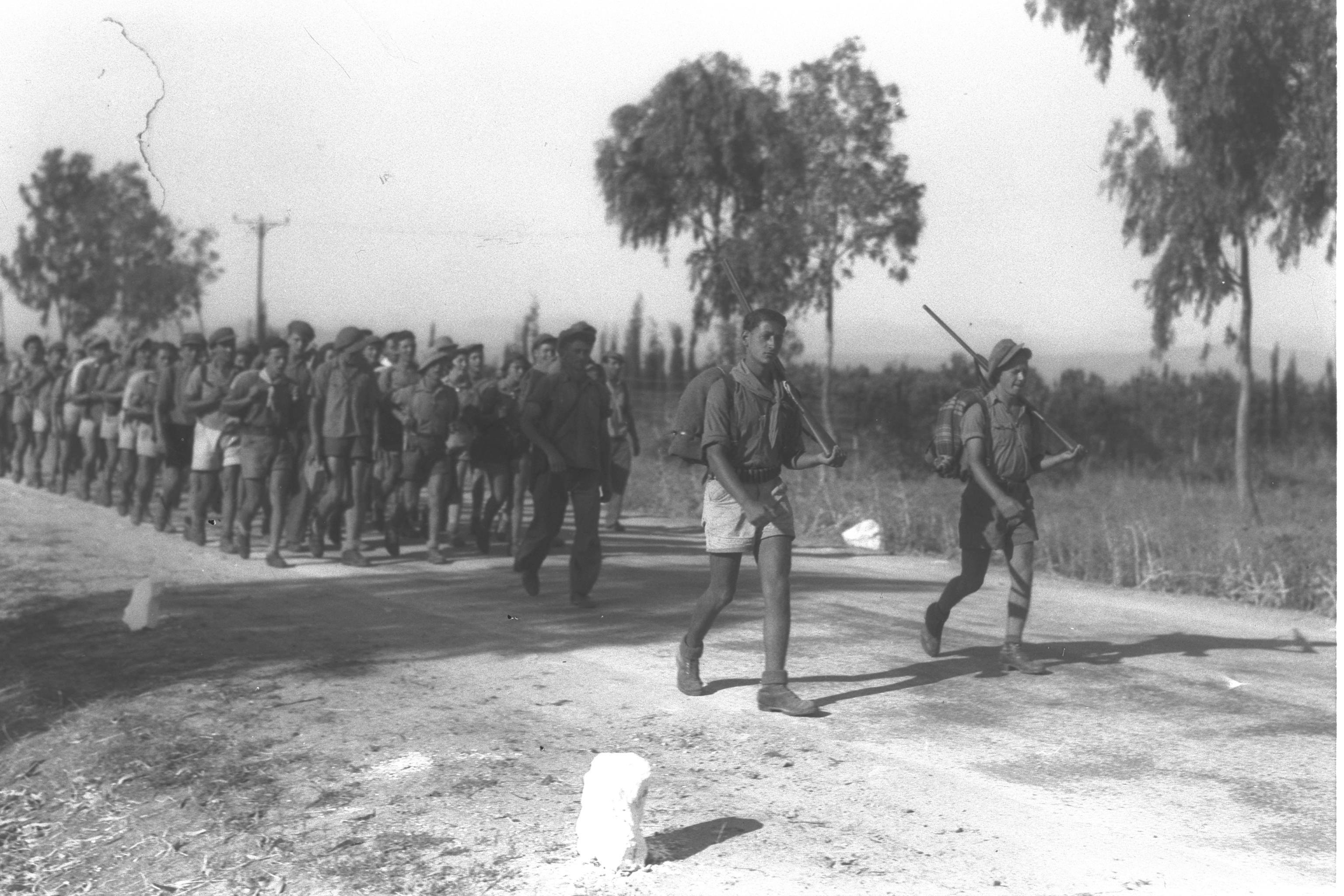 A GROUP OF YOUNG "HAGANA" MEMBERS MARCHING IN THE JEZREEL VALLEY NEAR AFULA. חברי הגנה צעירים צועדים בעמק יזרעאל, ליד עפולה.